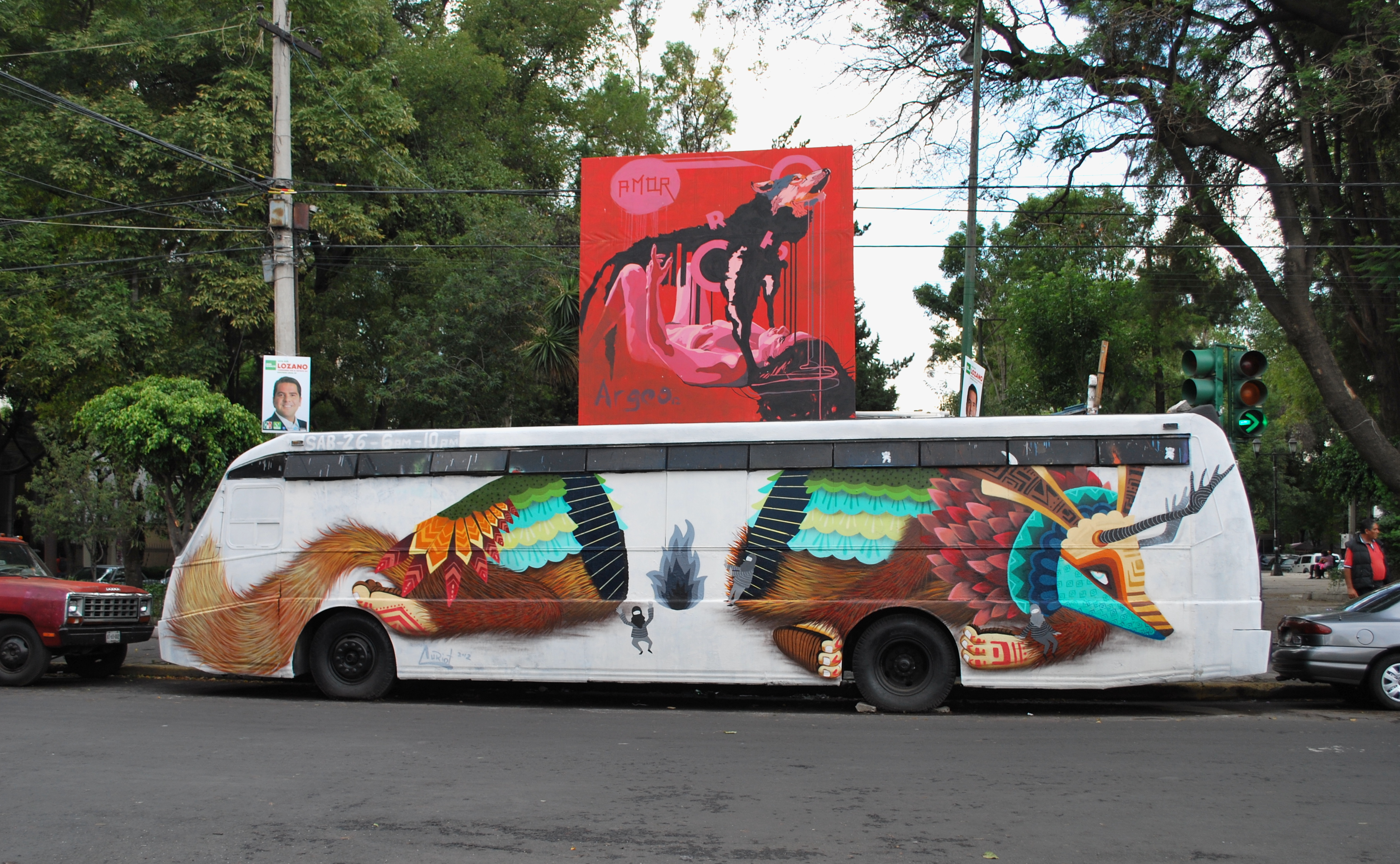 Former STE trolleybus 5122 at Plaza Luis Cabrera, in Colonia Roma, painted by Auriot. Seen in this Google Street View capture in 2011, before it was moved.